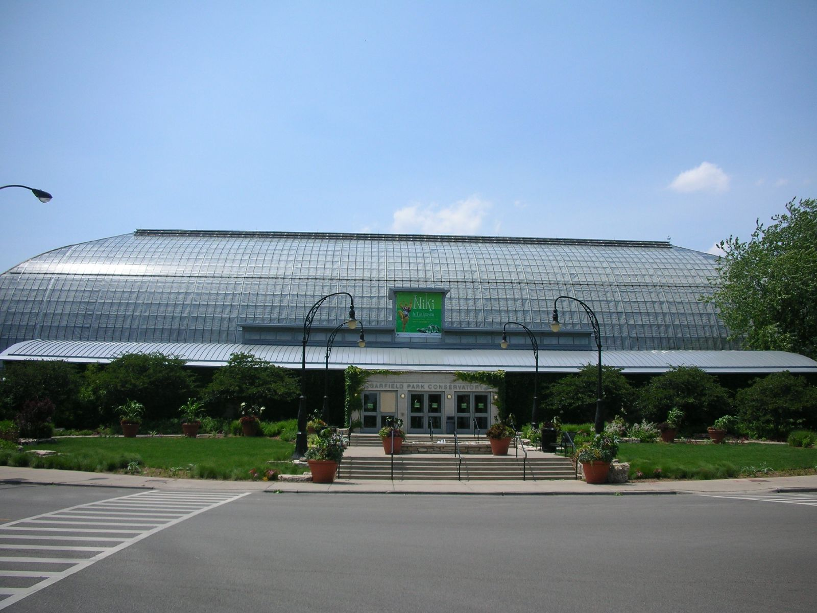 Garfield Park Conservatory, Chicago, Illinois, USA